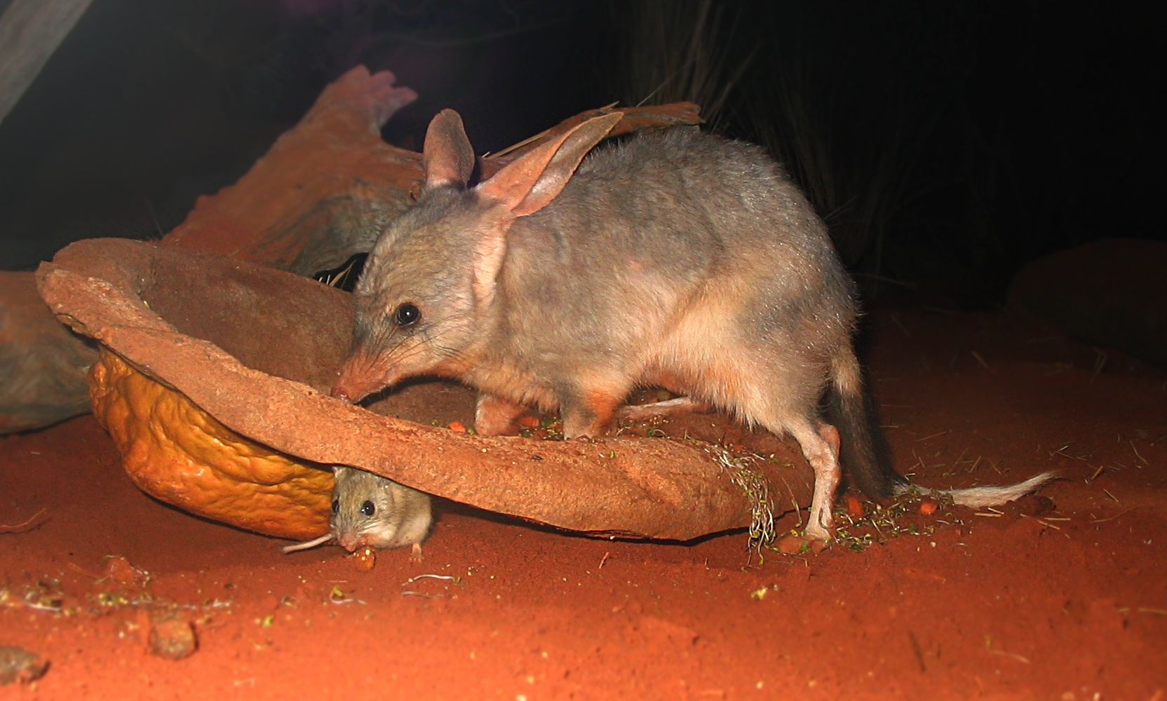 A bilby (Macrotis lagotis - large animal) and a Spinifex hopping mouse (Notomys alexis - small animal) at Sydney Wildlife World, a zoo in Sydney.